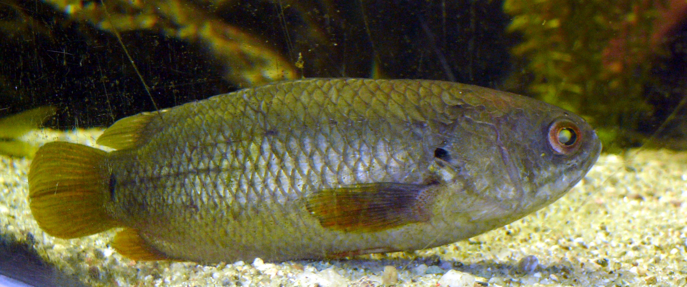 Anabas sp.